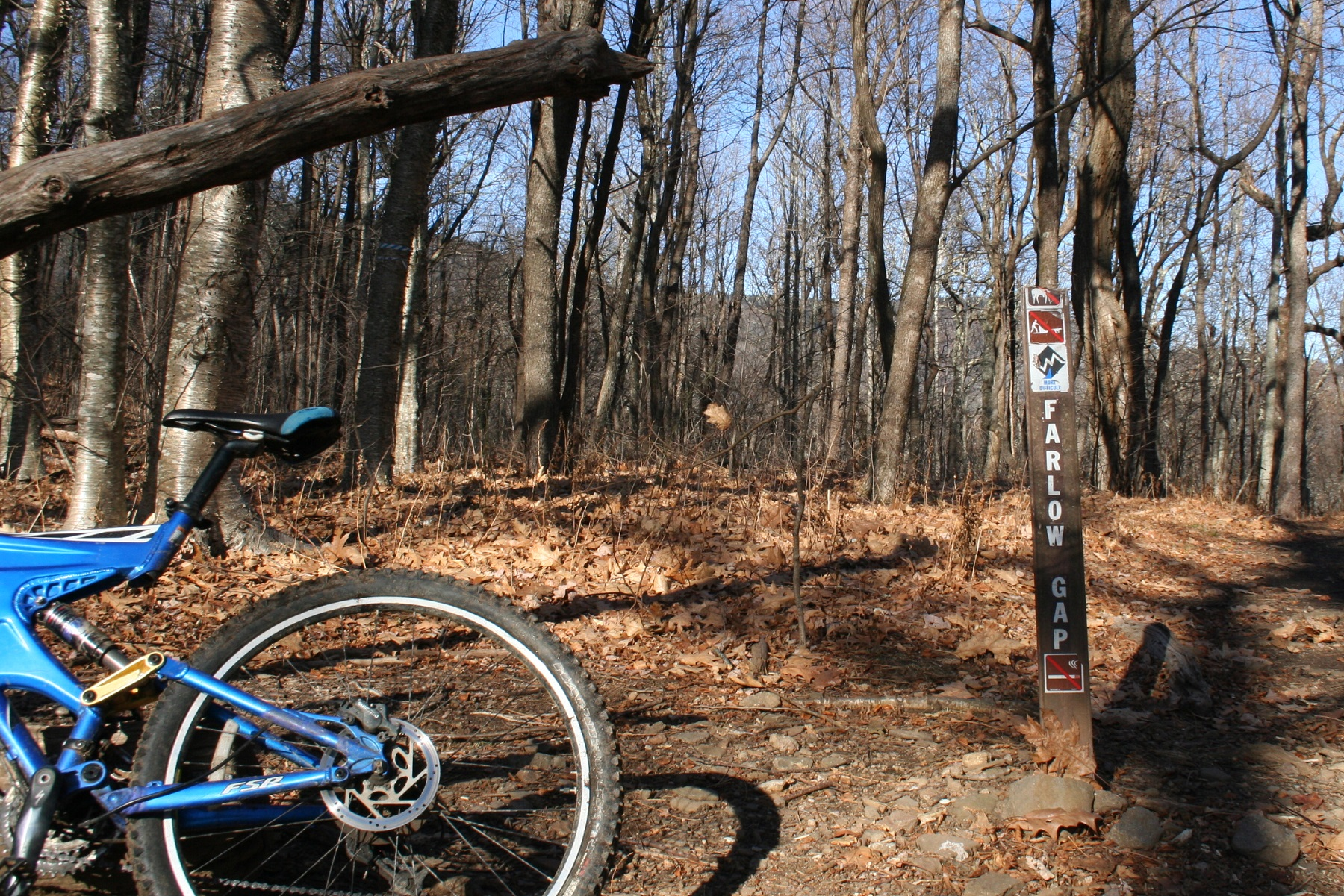 Trailhead for Farlow Gap trail. (Pisgah National Forest, NC)